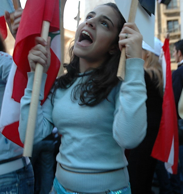 Easily the happiest person I saw all day.